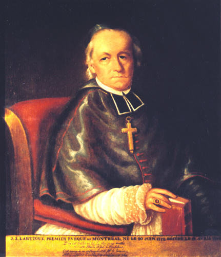 Jean-Jacques Lartigue, 1840 Original work: oil on canvas, 91 x 76,7 cm, Location: Montréal, Château Ramezay Museum